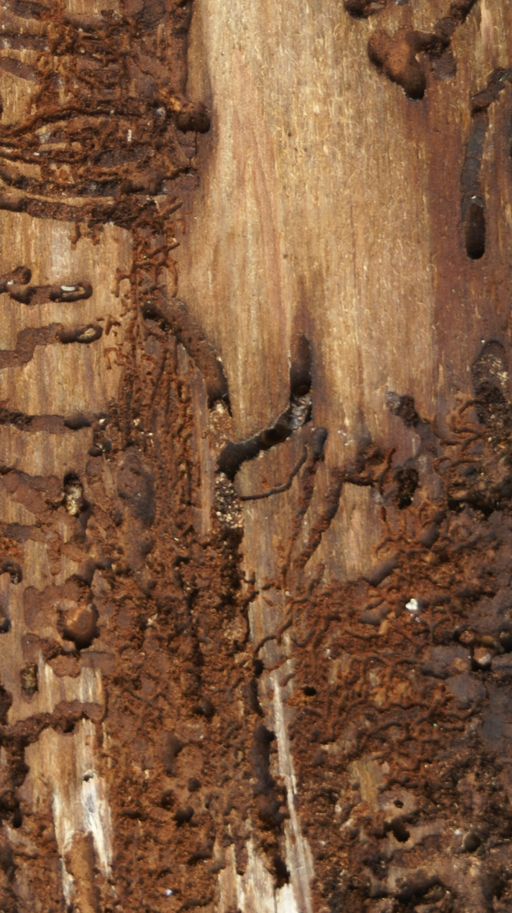 Crypturgus_pusillus_Damage_Detail